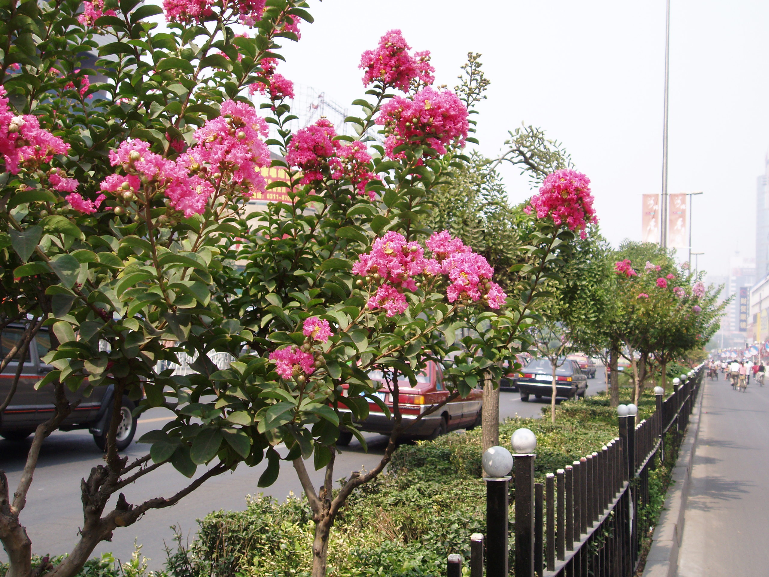 Crape myrtle flowers